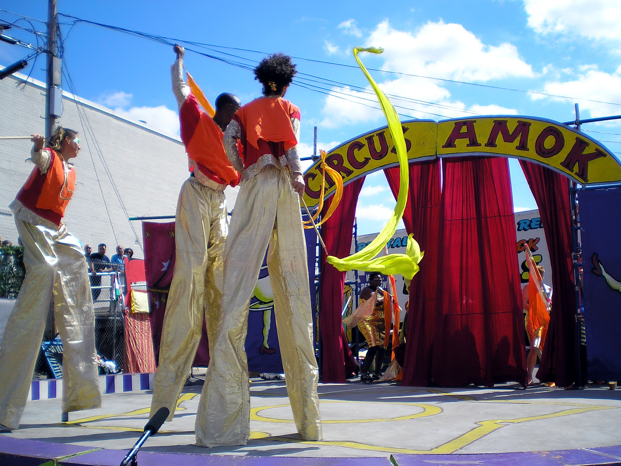 Stilt walkers by David Shankbone, New York City